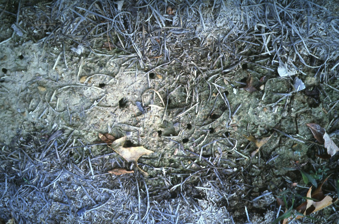 From the U.S. Department of Agriculture, from [1]. Copyright statement at [2] says "public domain, proper credit required". According to the source page, this image is courtesy of either the Ohio Department of Natural Resources or the West Virginia Department of Agriculture.